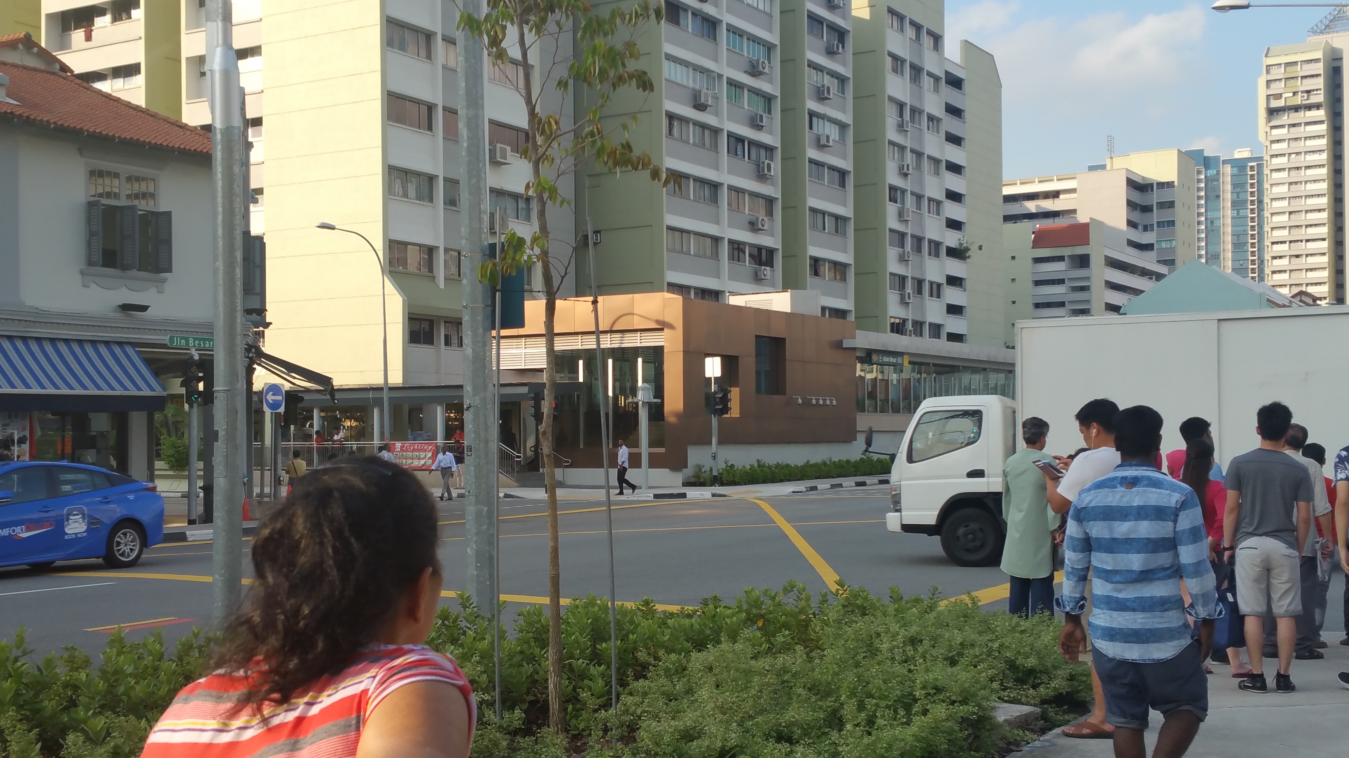 The outside of Jalan Besar MRT Station at Jalan Besar.